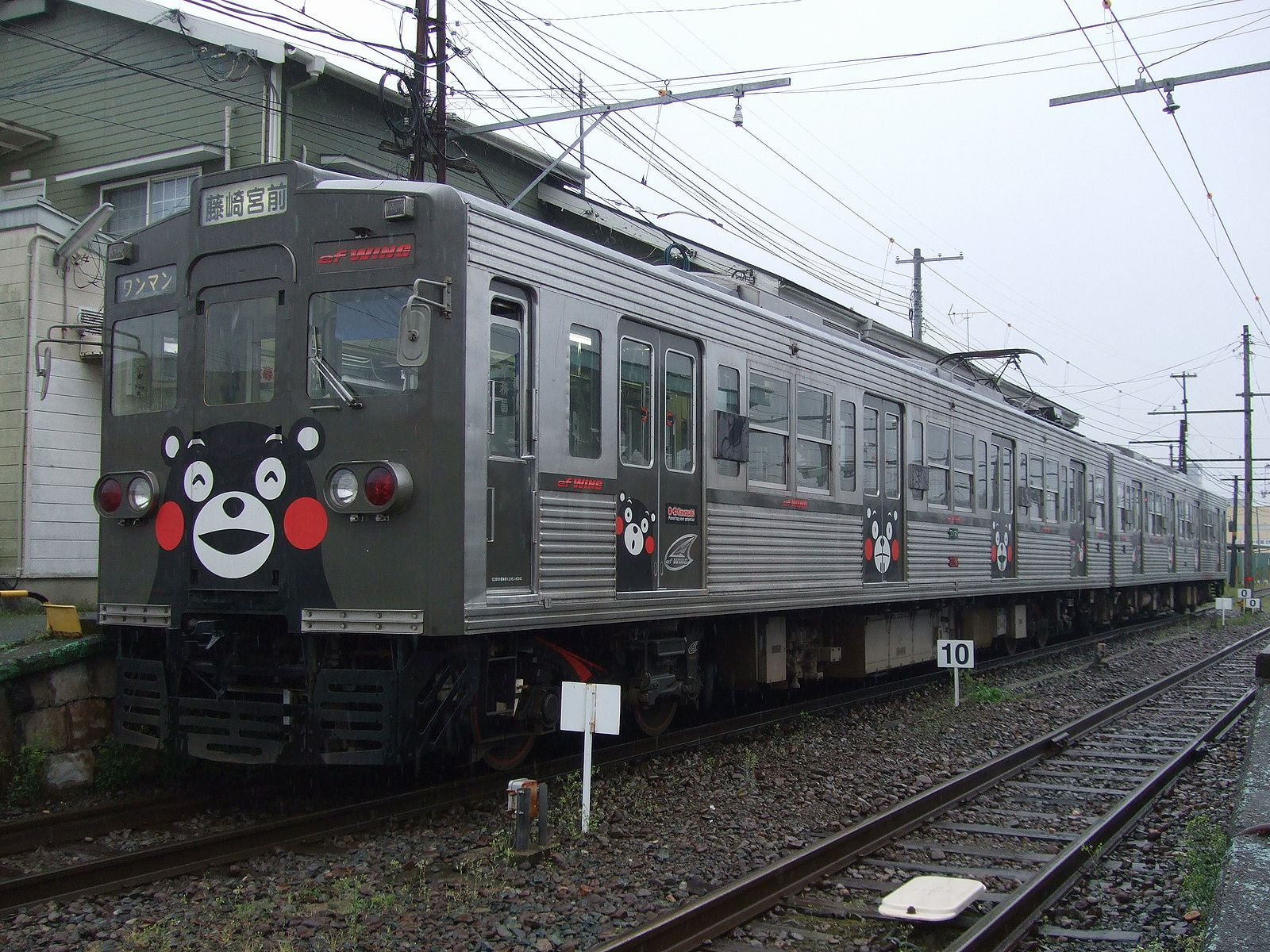 Company:Kumamoto Electric Railway / Type:6000 / Formation:6221ef-6228A / Location:Kitakumamoto Station, Kita Ward, Kumamoto City, Kumamoto, Japan